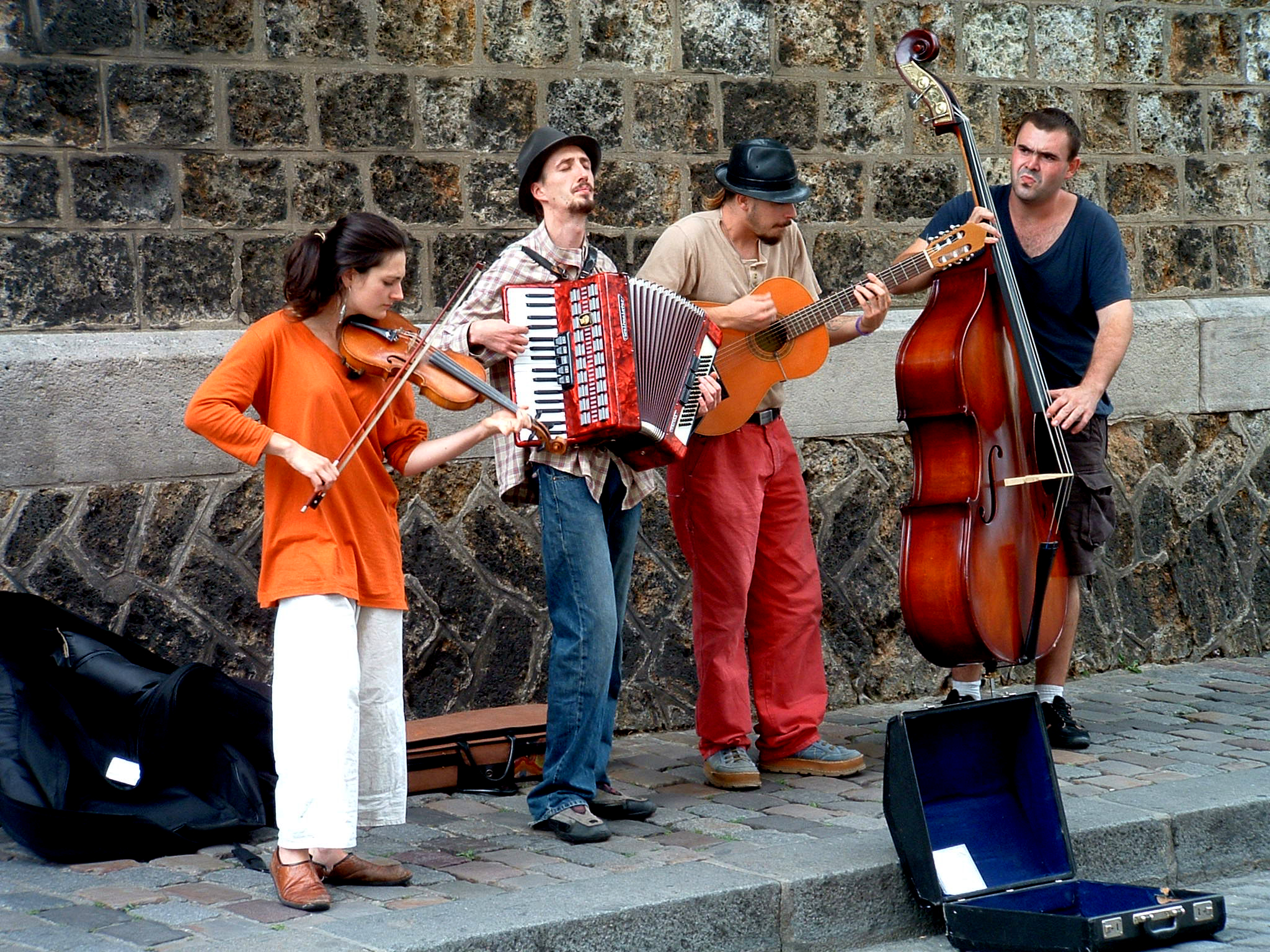 Music band in Montmartre